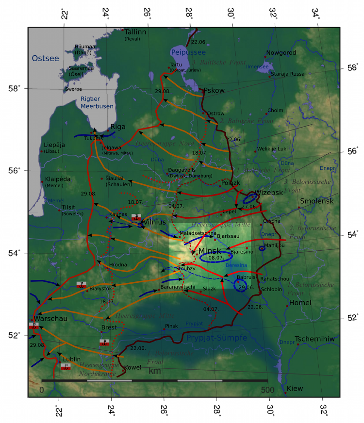 location of combat zone of Minsk-Operation (28. june 1944 - 8. july 1944) in context of sovjet major offensive "Operation Bagration"